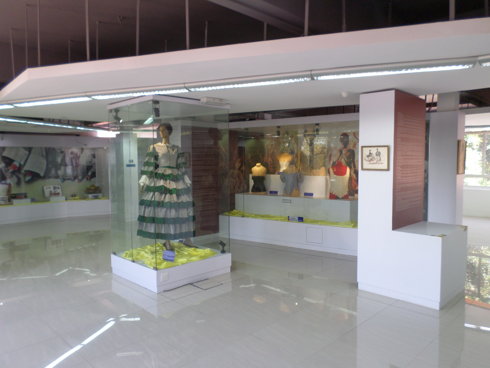 Beauty Museum, Central Malacca, Malacca, MalaysiaBahasa Melayu: Muzium Kecantikan, Melaka Tengah, Melaka, Malaysia